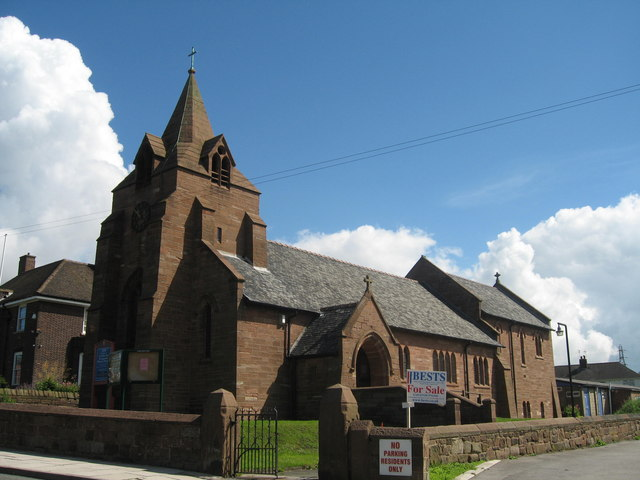 St John the Evangelist, Weston Village St John the Evangelist, Weston Village was built in 1896-97 of red sandstone with a Welsh slate roof. To help fund its building, the choirboys wrote letters to other choirboys throughout England, asking for a small donation towards its construction. In gratitude, the initials of those Weston choirboys were carved on the church steeple.